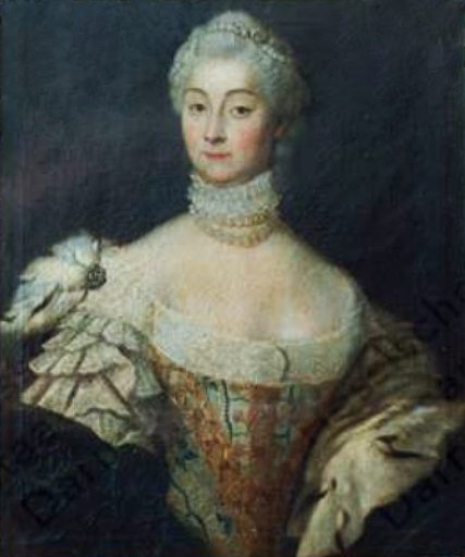 Luise Sophie Landgräfin v. Hessen-Darmstadt, Gräfin v. Epstein, geb. v. Spiegel (1690-1751) / Porträt, Halbfigur, in Goldrahmen Portrait of Luise Sophie von Spiegel zum Desenberg (1690–1751), wife of Ernest Louis, Landgrave of Hesse-Darmstadt